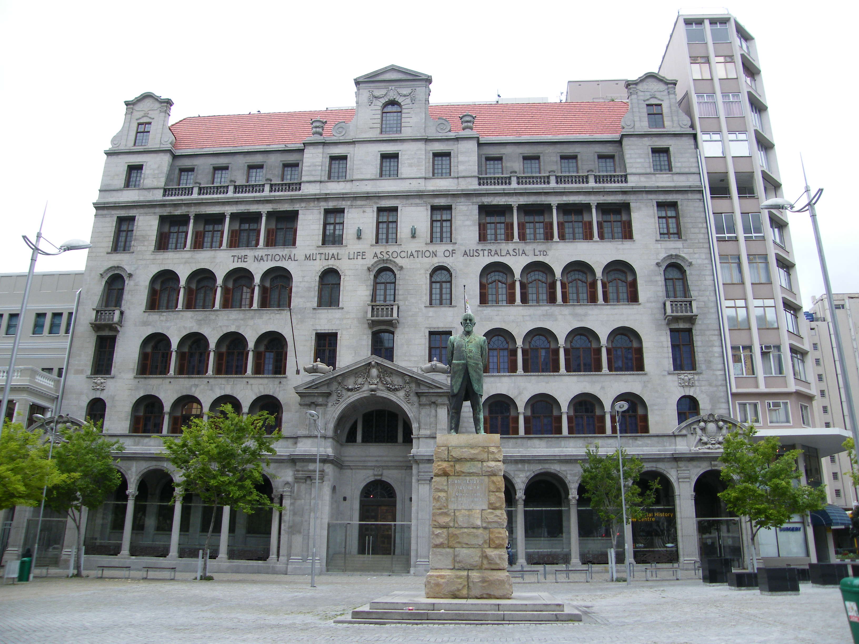 This media shows a South African Protected Site with SAHRA file reference 9/2/018/0140.